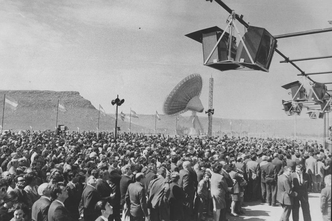 Inauguration of the Balcarce Ground Station.